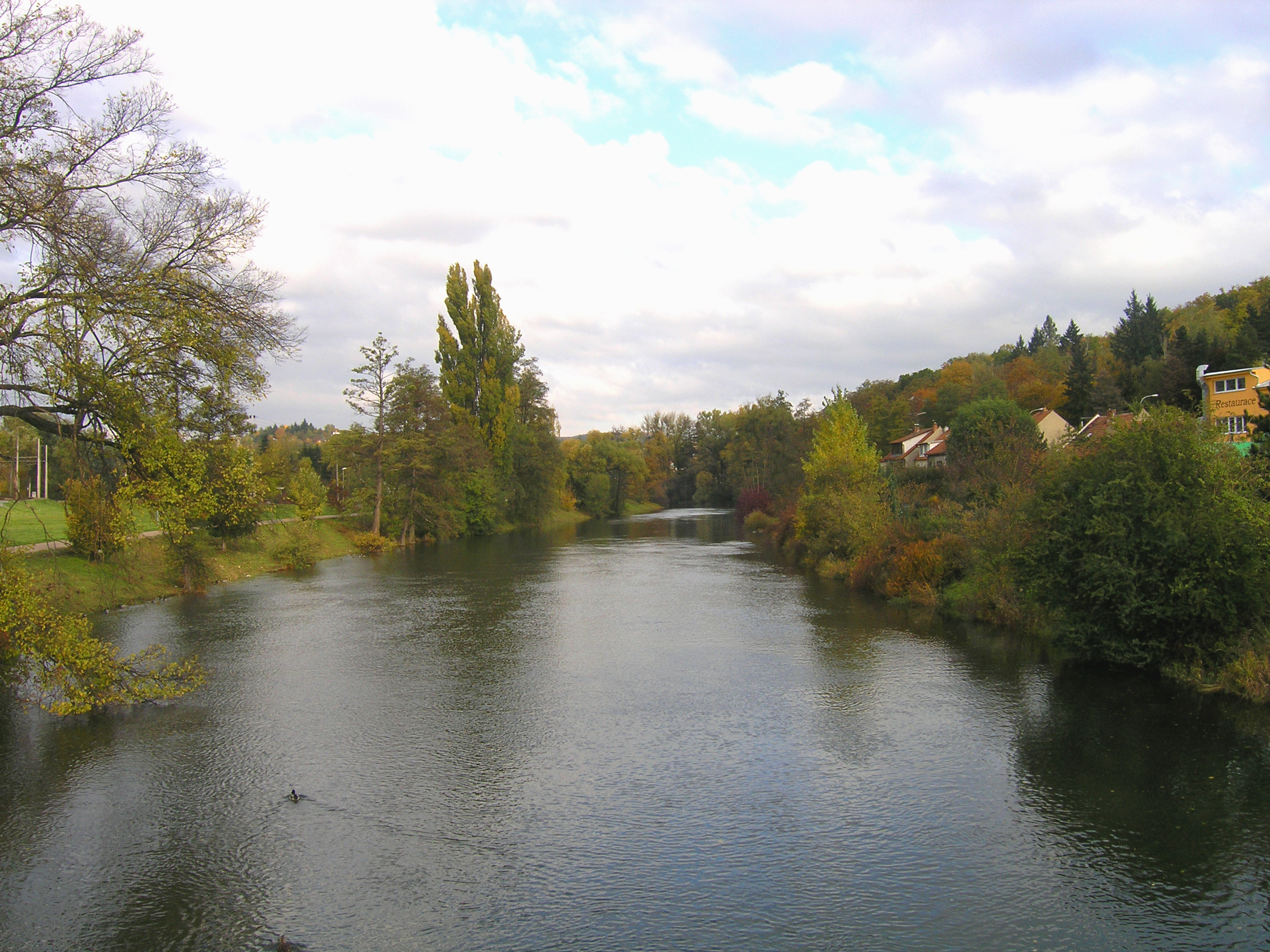 Svratka river in Brno, Czech Republic